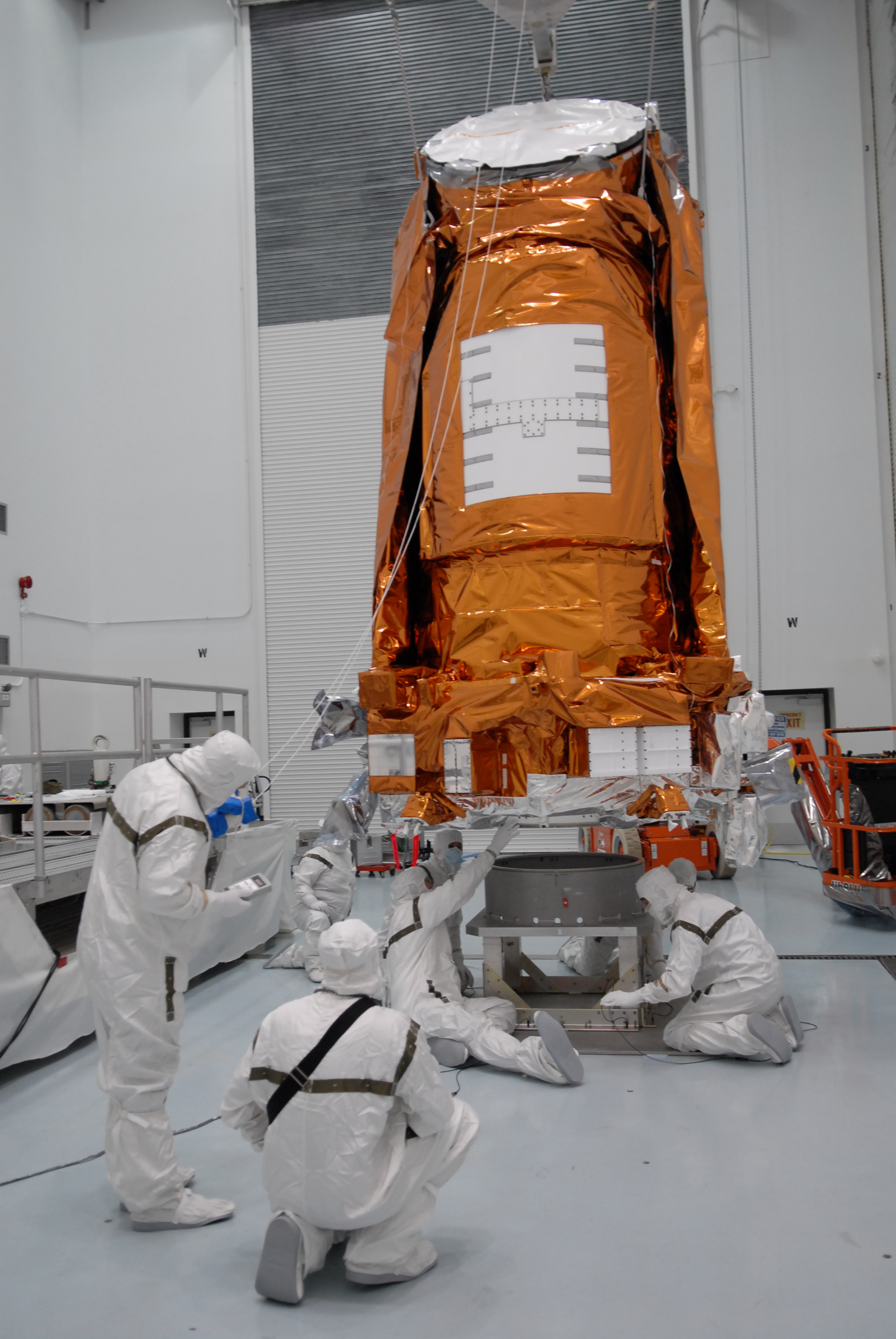 At the Hazardous Processing Facility at Astrotech in Titusville, Fla., workers lift the Kepler spacecraft from a work stand in preparation for mating it to a Delta II third stage. Kepler is designed to survey more than 100,000 stars in our galaxy to determine the number of sun-like stars that have Earth-size and larger planets, including those that lie in a star's "habitable zone," a region where liquid water, and perhaps life, could exist. If these Earth-size worlds do exist around stars like our sun, Kepler is expected to be the first to find them and the first to measure how common they are. The liftoff of Kepler aboard a Delta II rocket is currently targeted for 10:48 p.m. EST March 5 from Space Launch Complex 17 on Cape Canaveral Air Force Station.